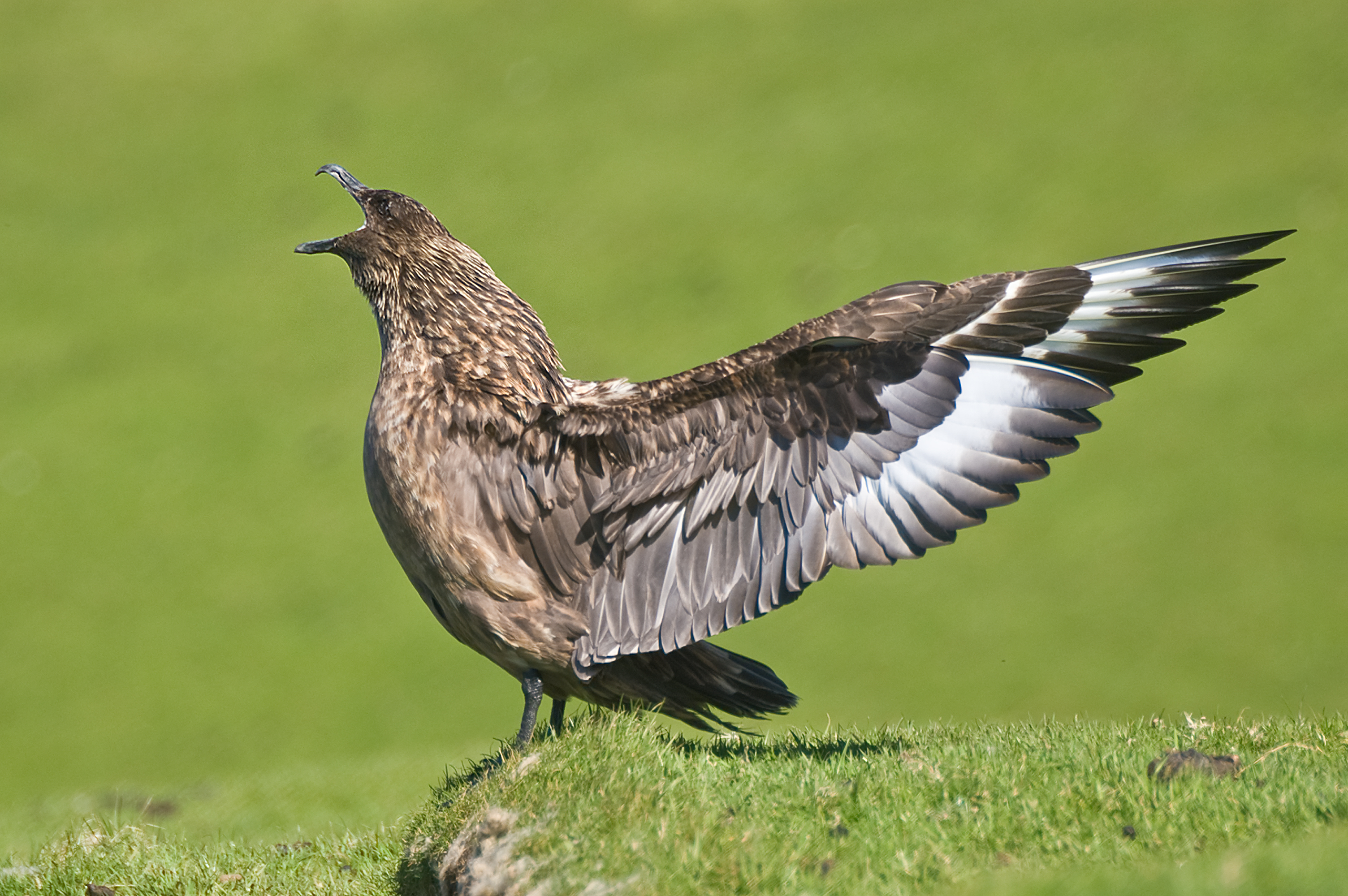 Great Skua (Stercorarius skua), Shetland